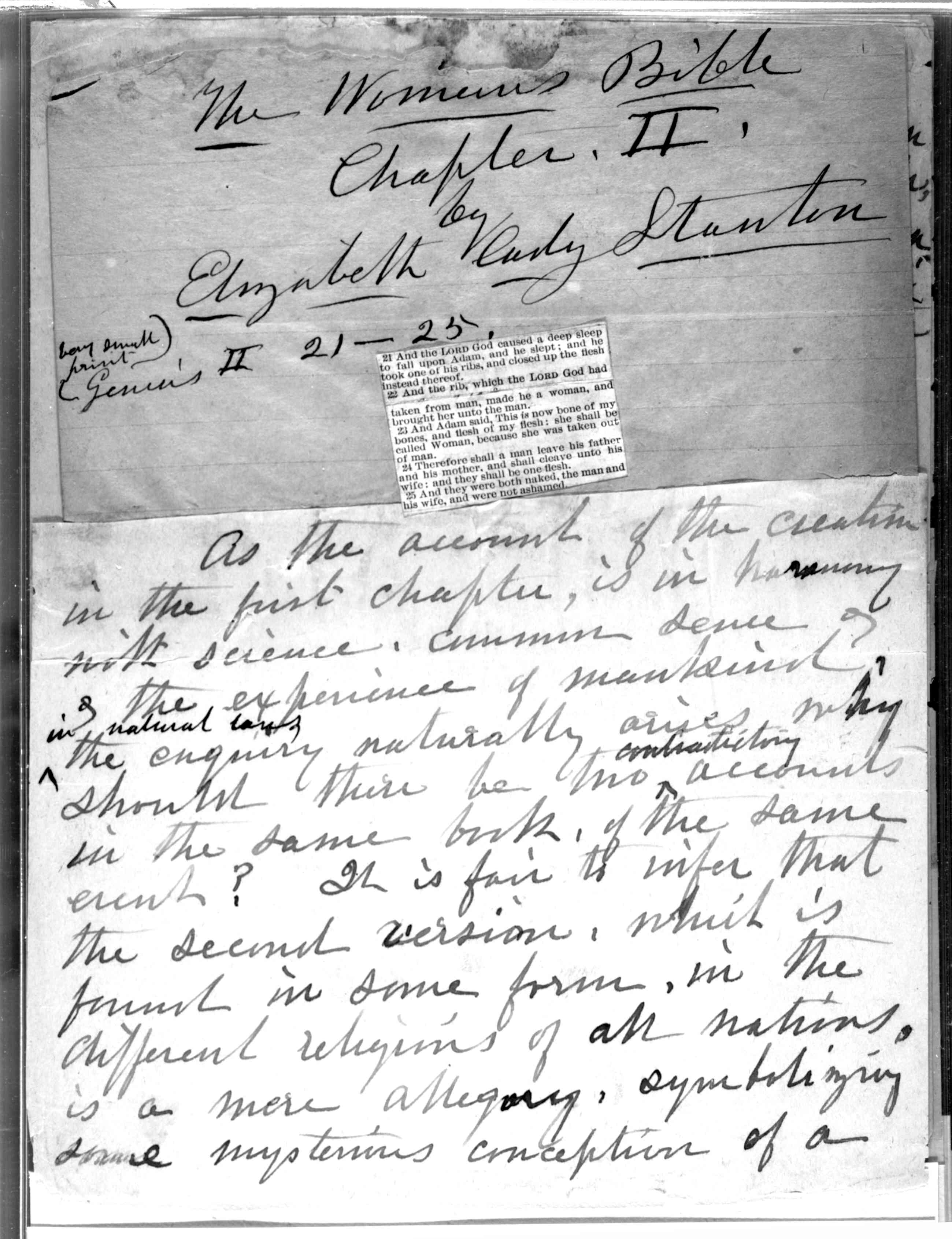 Handwritten draft of chapter II of The Woman's Bible (1895), covering Genesis 21-25.